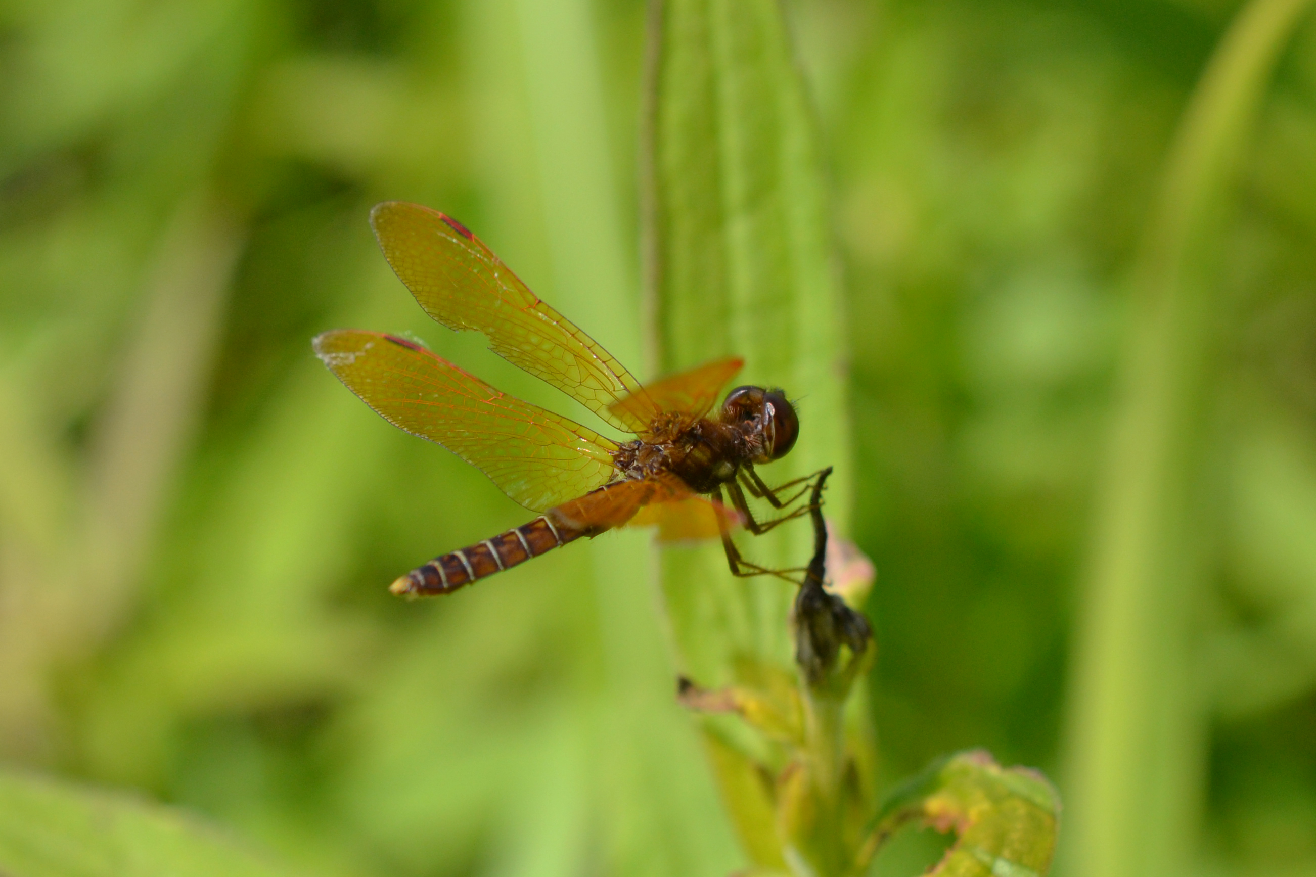 Ellis Lake Wetlands, Fairfield, Ohio